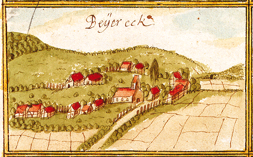 View of Baiereck, Uhingen, from the forest register books created by Andreas Kieser